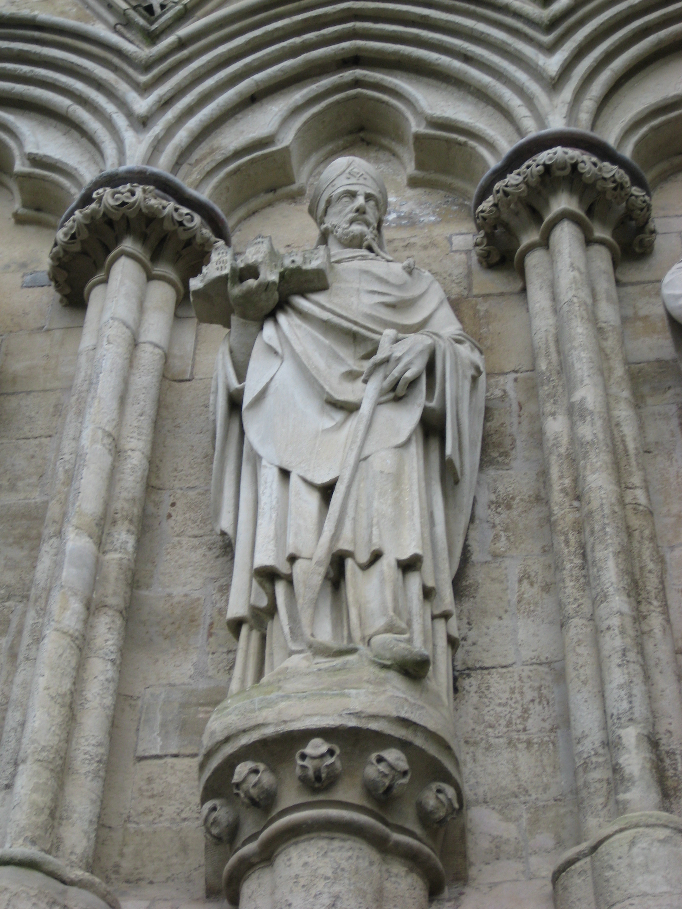 The statue of Richard Poore, Bishop of Durham, at Salisbury Cathedral.